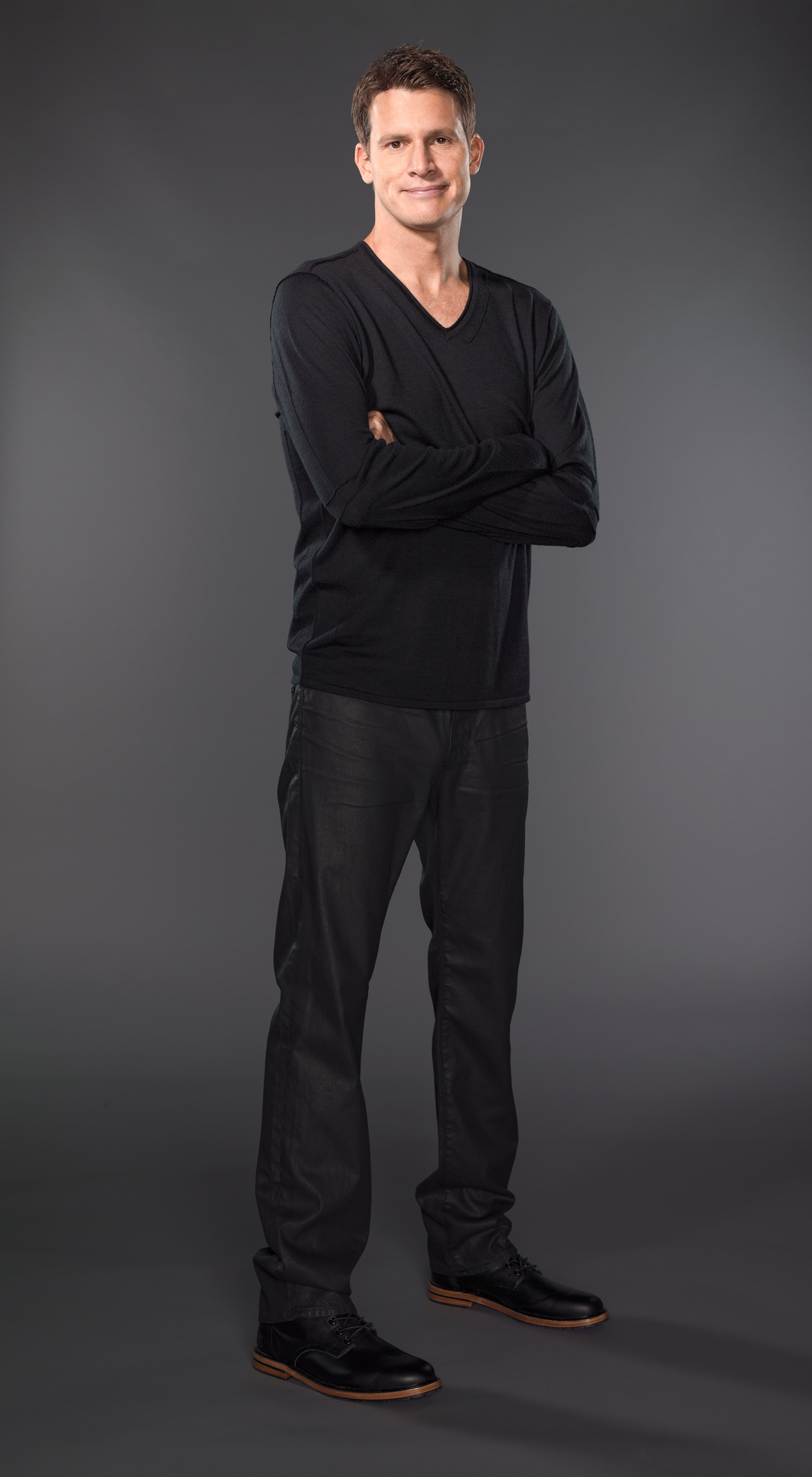 Daniel Tosh